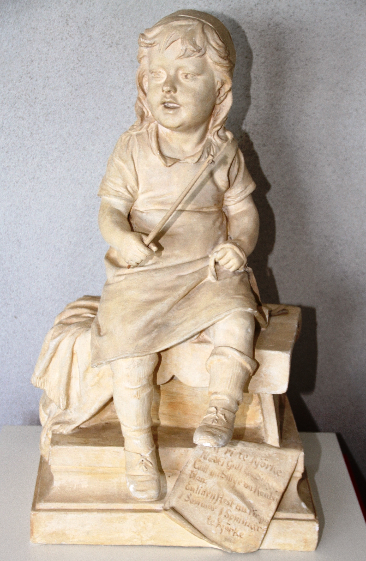 Work of the sculptor Mathias Skeibrok from Lista (Farsund, Vest-Agder), Norway. This sculptor worked in Paris and Oslo, and is regarded as one of Norway's most prominent sculptors. He was the teacher of Gustav Vigeland, who grew up in the neighbouring municipality of Lindesnes.